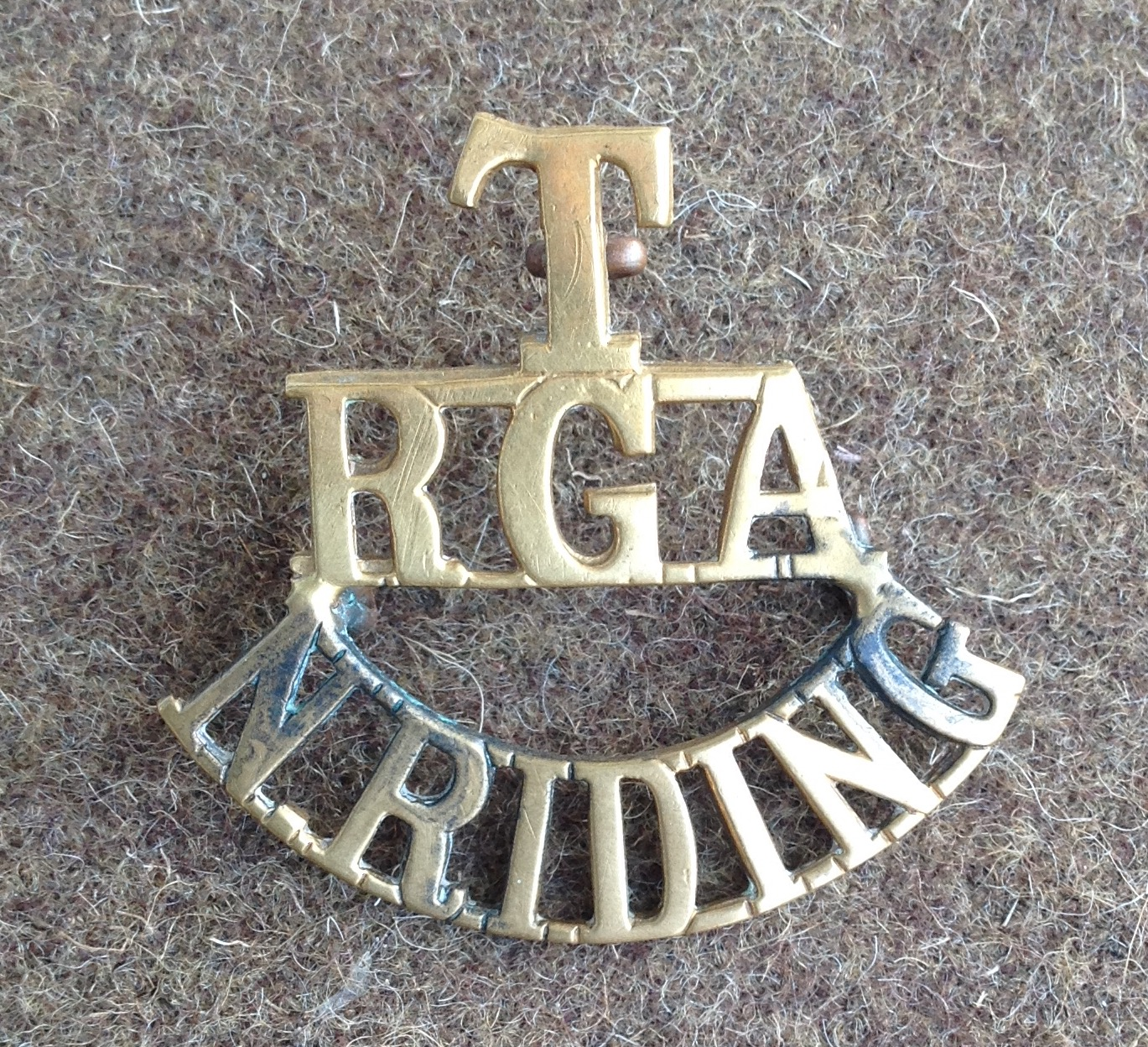 Shoulder title, North Riding of Yorkshire Royal Garrison Artillery (Territorial Force), for wear on Service Dress, 1908-1924